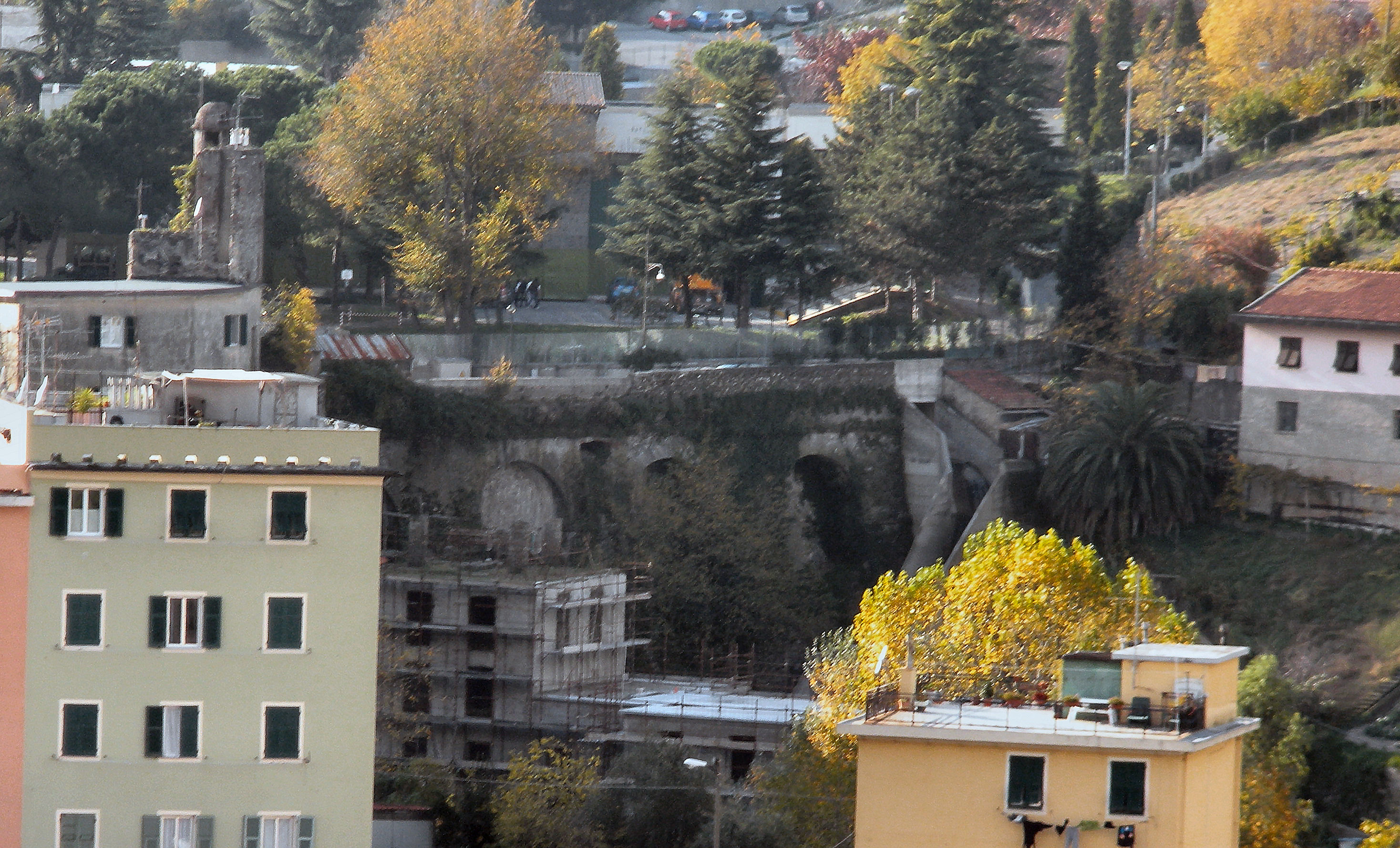 Genoa-Borzoli (Italy), the dam of the former Lake Pilone